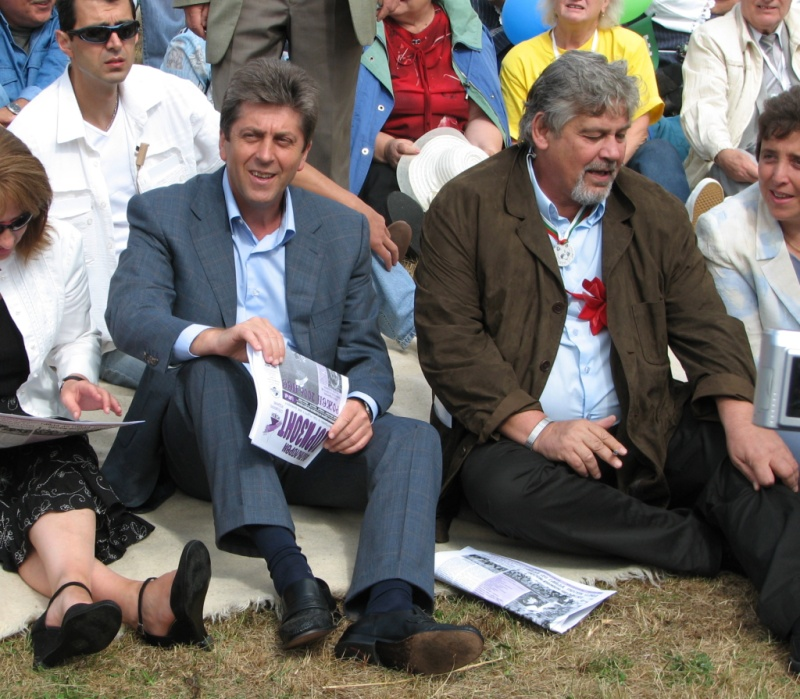 Georgi Parvanov and Stefan Danailov, Rozhen folklore festival 2006